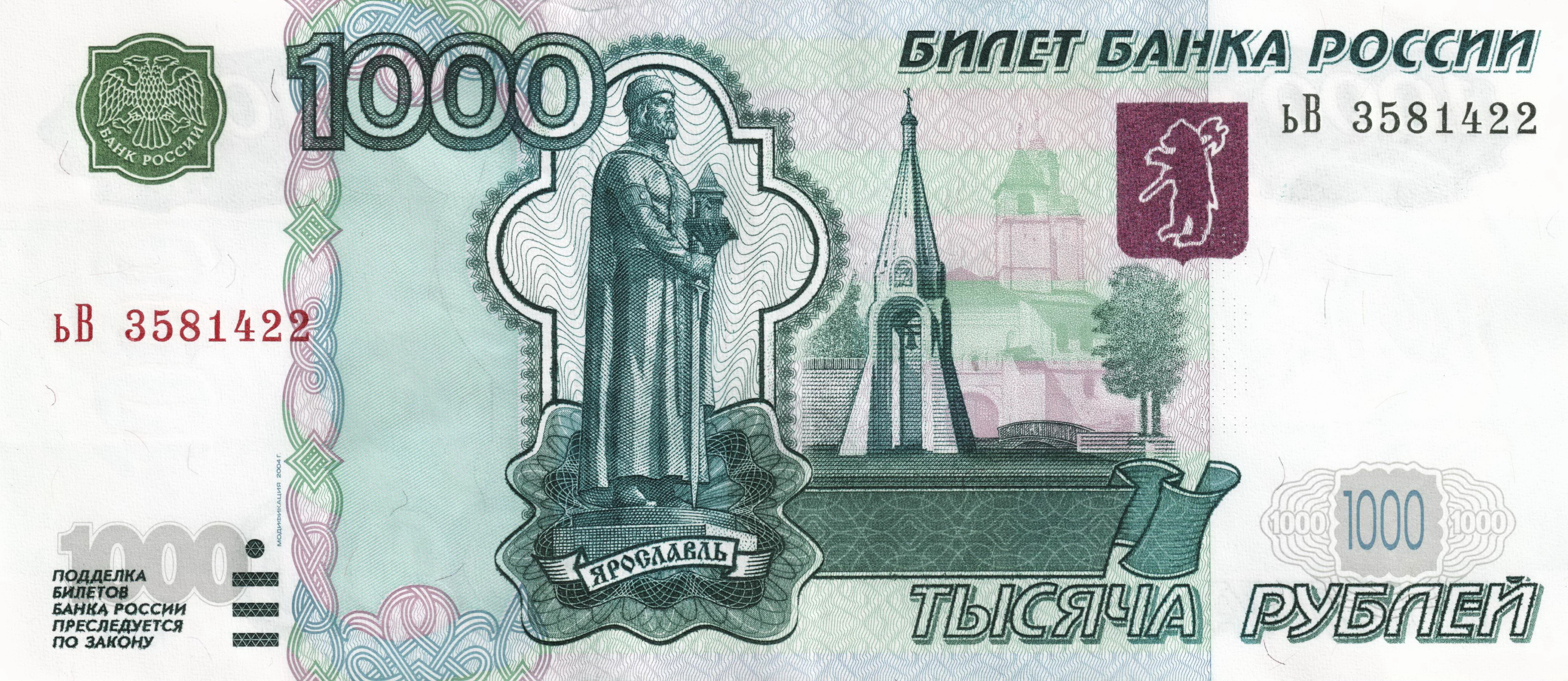 Russian banknote. 1000 rubles. Version of 2004 year. Front